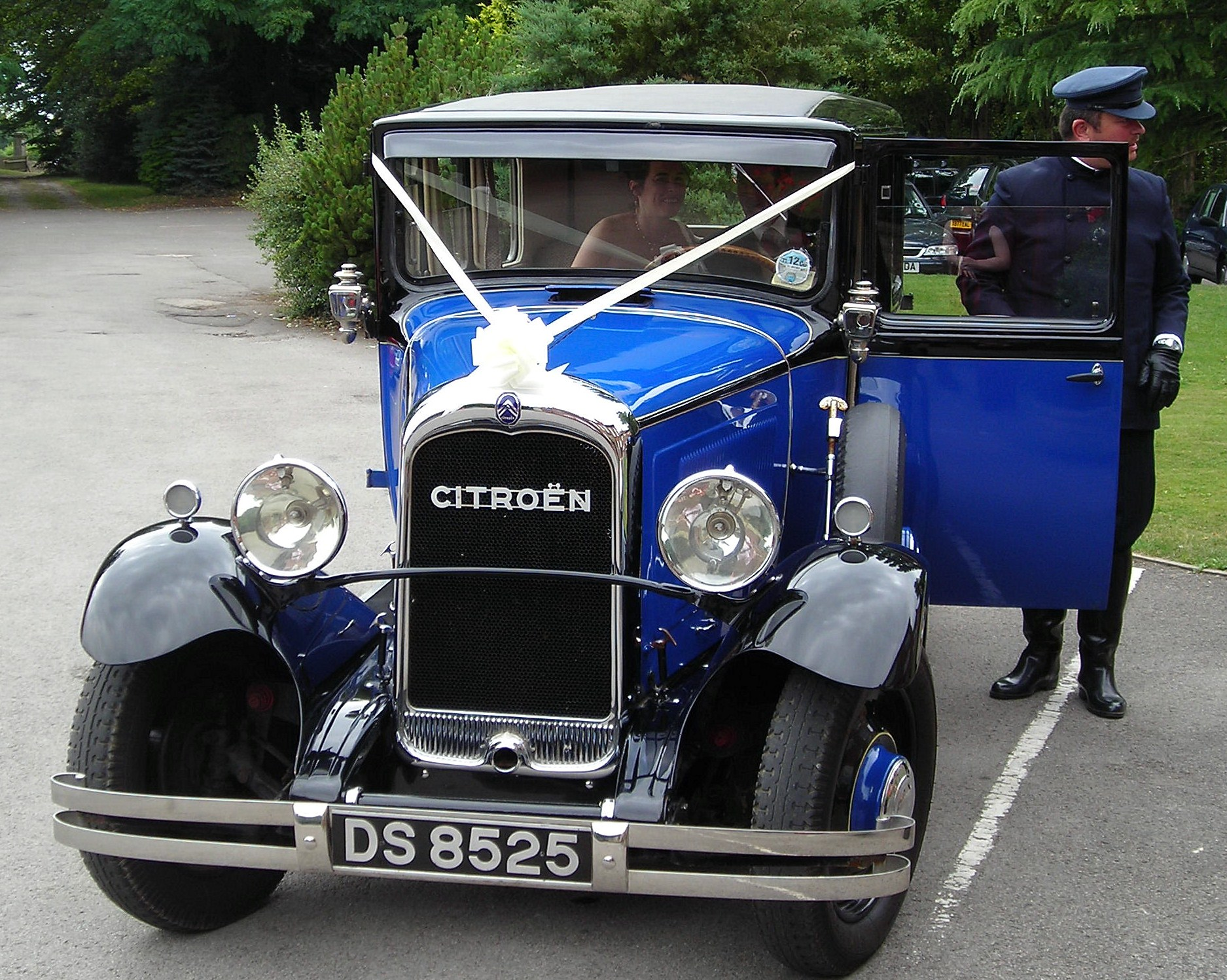 1930 Citroën C6, used in the TV series Poirot.